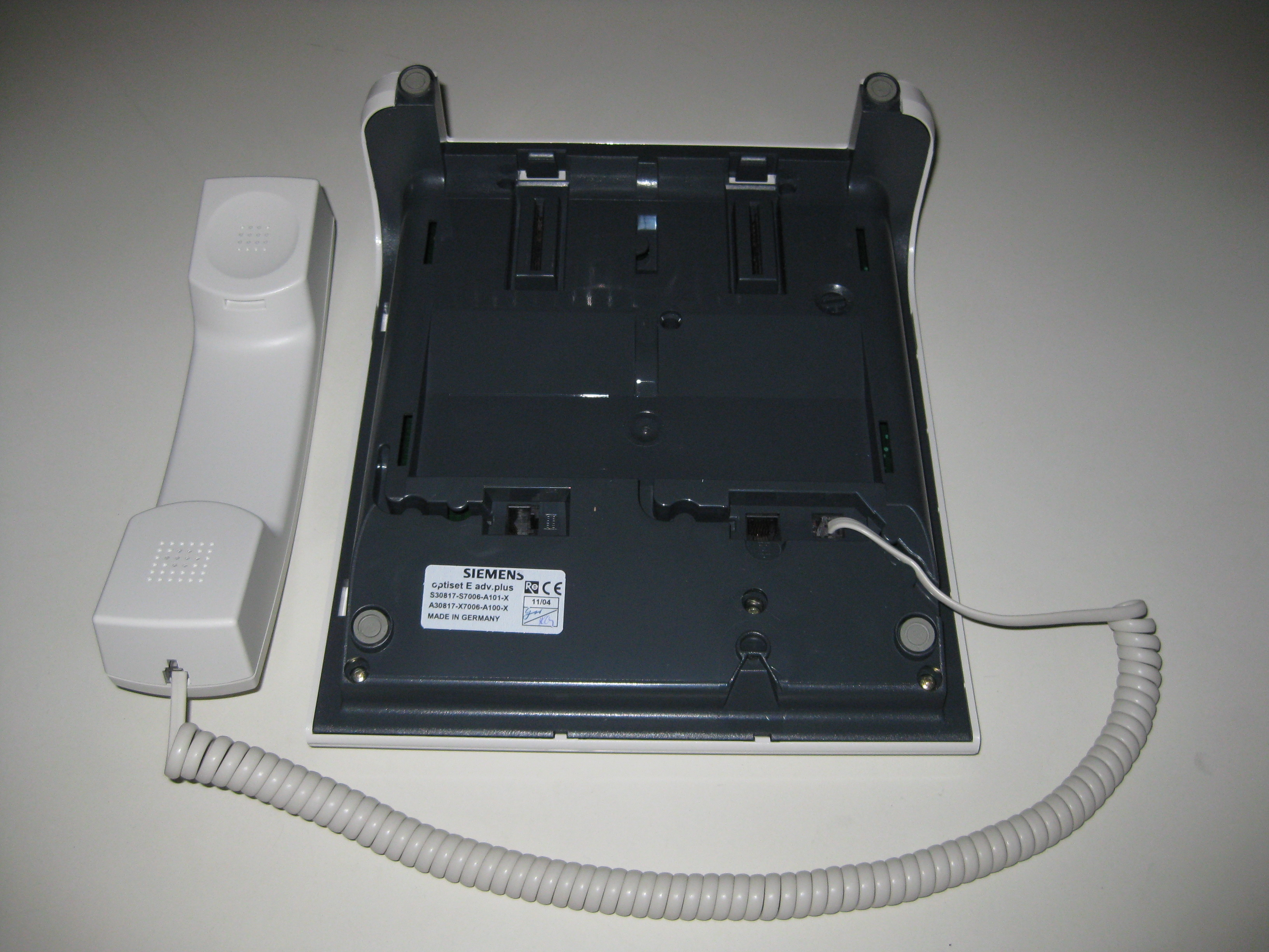 A Phone from a Hicom or Hipath, named Optiset E